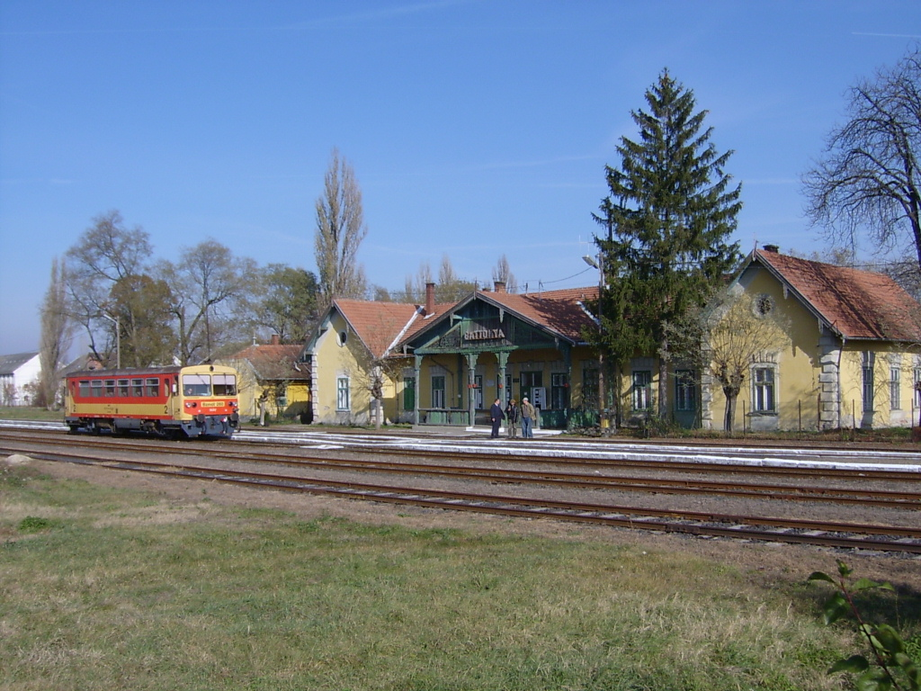 Railway station of Battonya, Hungary